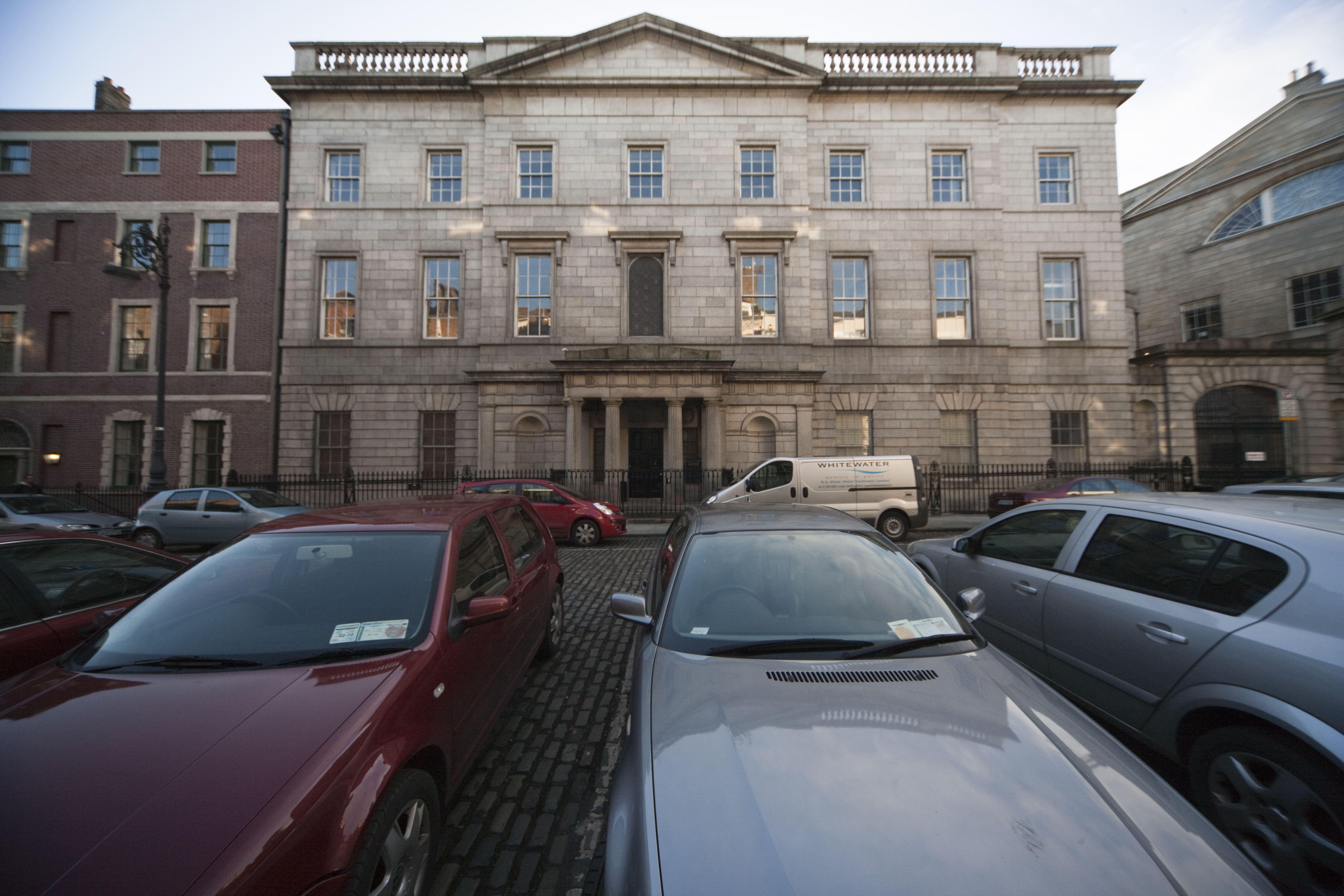 King's Inns Library south-side opposite numbers 9 and 10 Henrietta Street King’s Inns Library built 1824-32 under the direction of architect Frederick Darley replaced the Archbishop of Armagh (Boulter)’s house which had been built 1724-1729 and had been allowed to decay. Henrietta Street is a Dublin street, to the north of Dorset Street, on the north side of the city, first laid out and developed by Luke Gardiner during the 1720s. A very wide street relative to streets in other 18th-century cities, it includes a number of very large red-brick city palaces of Georgian design. The street is generally held to be named after Henrietta, the wife of Charles FitzRoy, 2nd Duke of Grafton, although an alternative candidate is Henrietta, the wife of Charles Paulet, 2nd Duke of Bolton. The nearby Bolton Street is named after Paulet. Henrietta Street is the earliest Georgian Street in Dublin – it is the model from which Dublin’s Georgian identity is derived. Construction on the street started in the mid 1720s, on land bought by the Gardiner family in 1721. Construction was still taking place in the 1750s. Gardiner had a mansion, designed by Richard Cassels, built for his own use around 1730. The street was popularly referred to as Primate's Hill, as one of the houses was owned by the Archbishop of Armagh, although this house, along with two others, was demolished to make way for the Law Library of King's Inns. The street fell into disrepair during the 19th and 20th centuries, with the houses being used as tenements, but has been the subject of restoration efforts in recent years. There are currently 13 houses on the street. The street is a cul-de-sac, with the Law Library of King's Inns facing onto its western end.